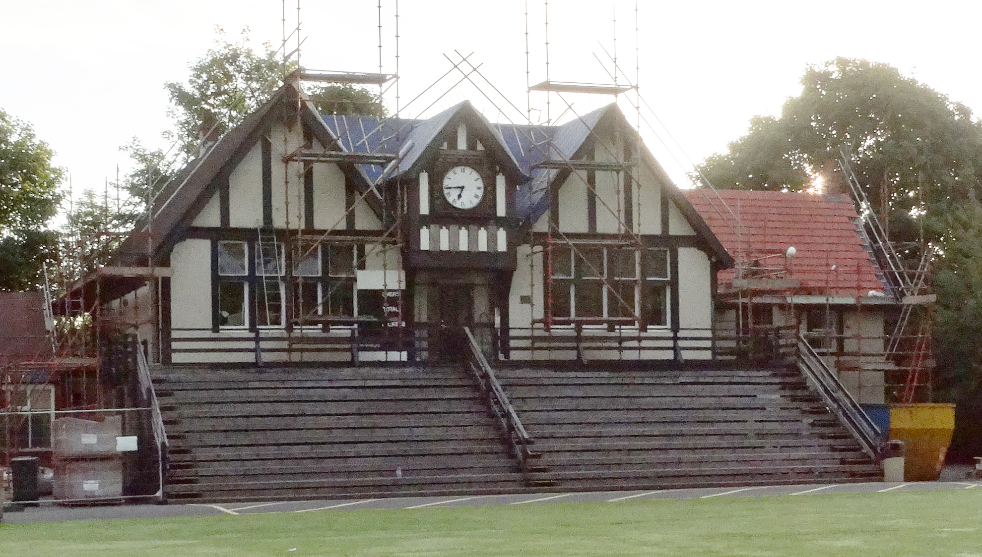 Photograph of the Craiglockhart Pavilion in Edinburgh, Scotland, by Ross E. Davies